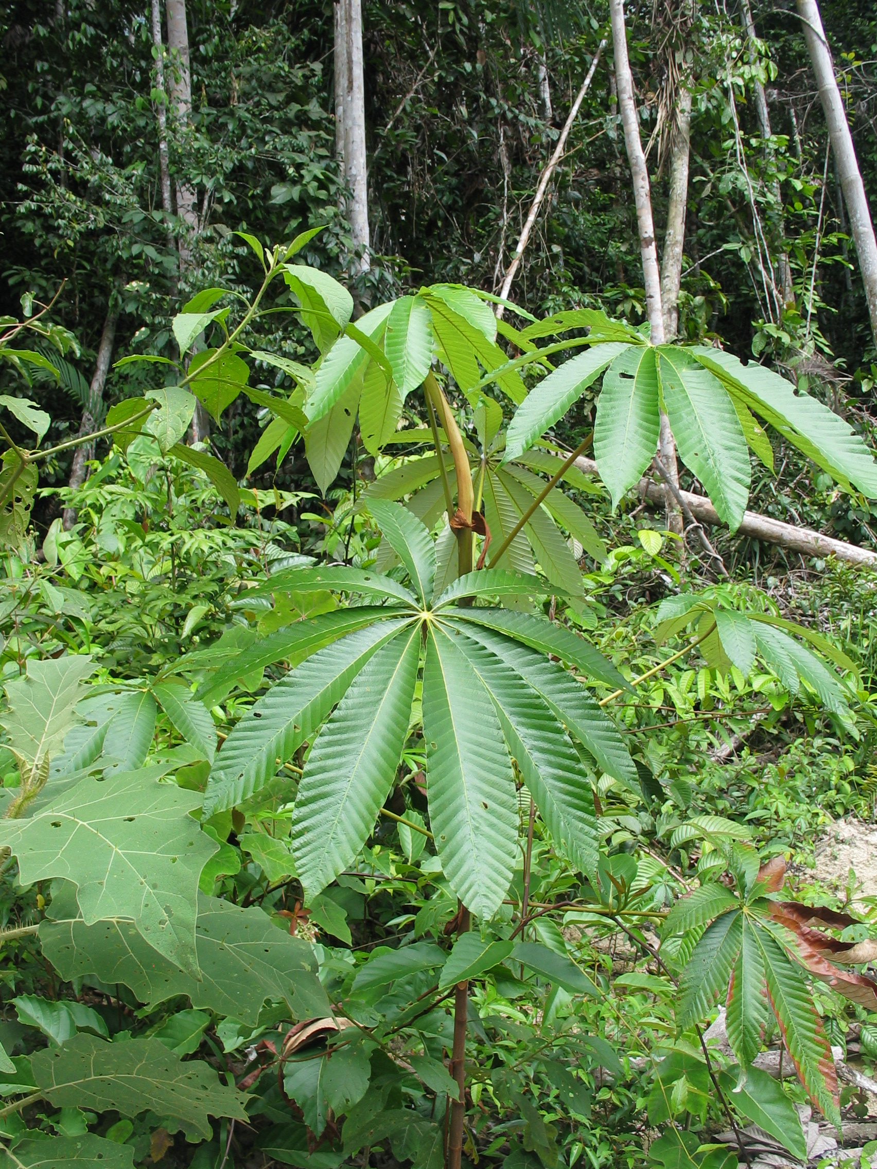 Cecropia trees move in fast in the event of forest gaps, taking advantage of the available sunlight.